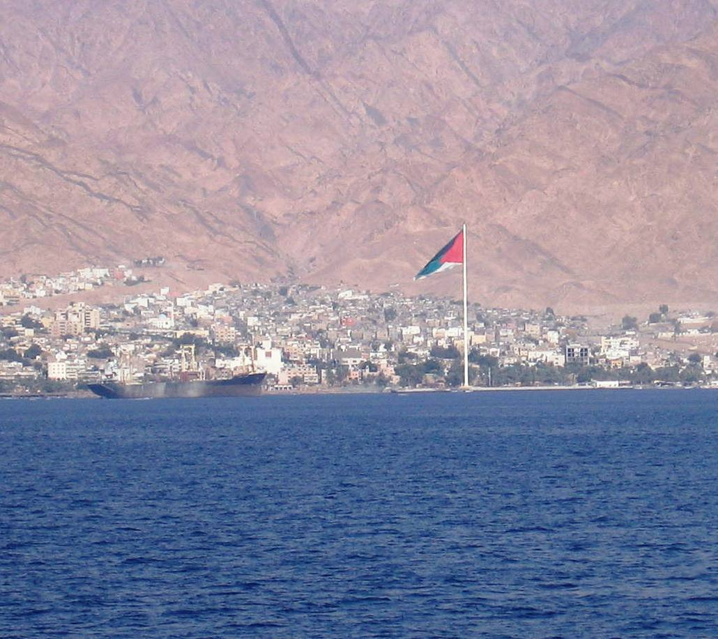 (user:bnwwf91) I took this photo of the Aqaba flagpole while on a boat in The Gulf of Eilat(Aqaba) near Eilat, Israel and Aqaba, Jordan